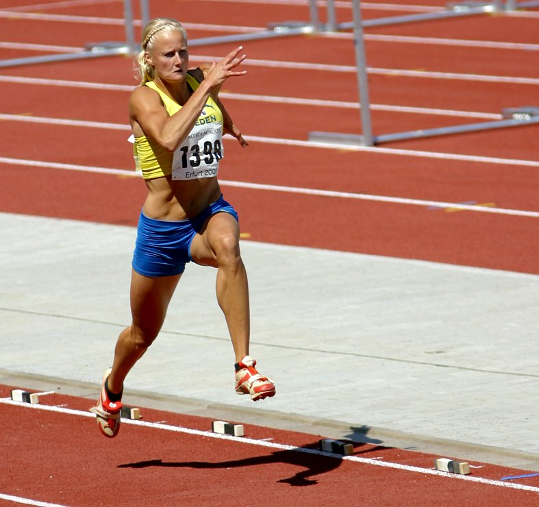 Carolina Klüft taking part in the long jump competition, European Junior Championships 2005, Erfurt, Germany